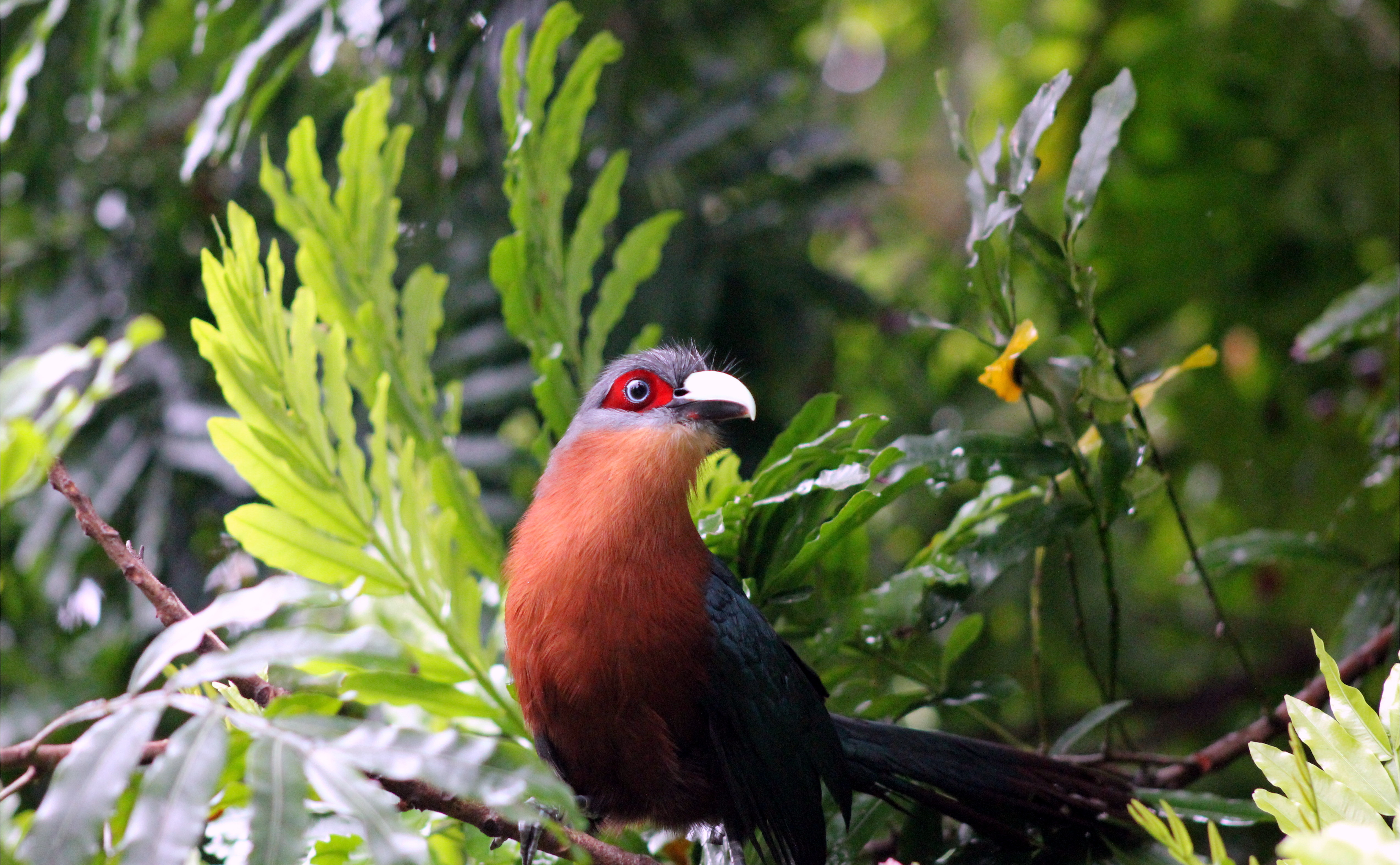 CHESTNUT-BREASTED MALKOHA